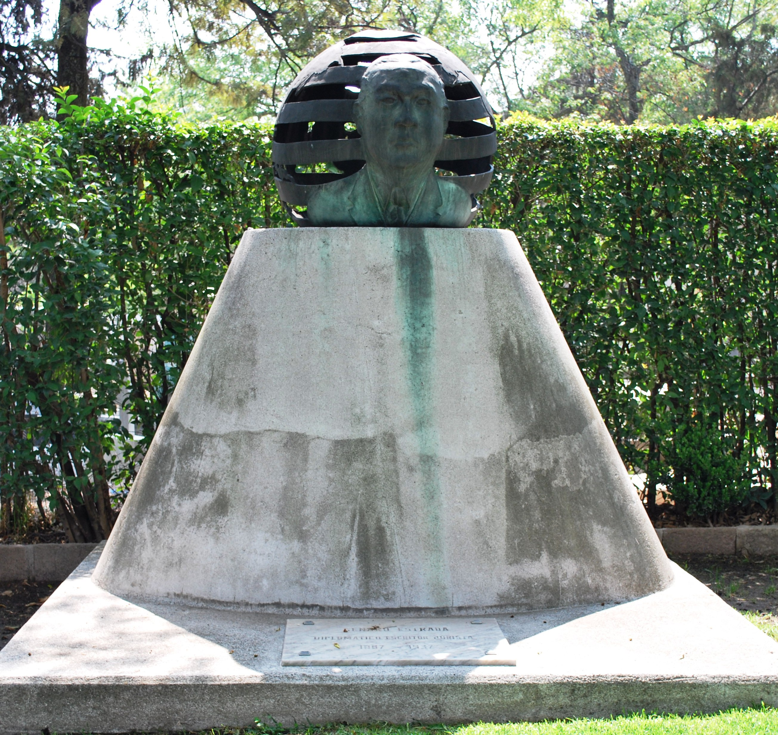 Tomb of Genaro Estrada in the Panteon Civil de Dolores cemetery in Mexico City